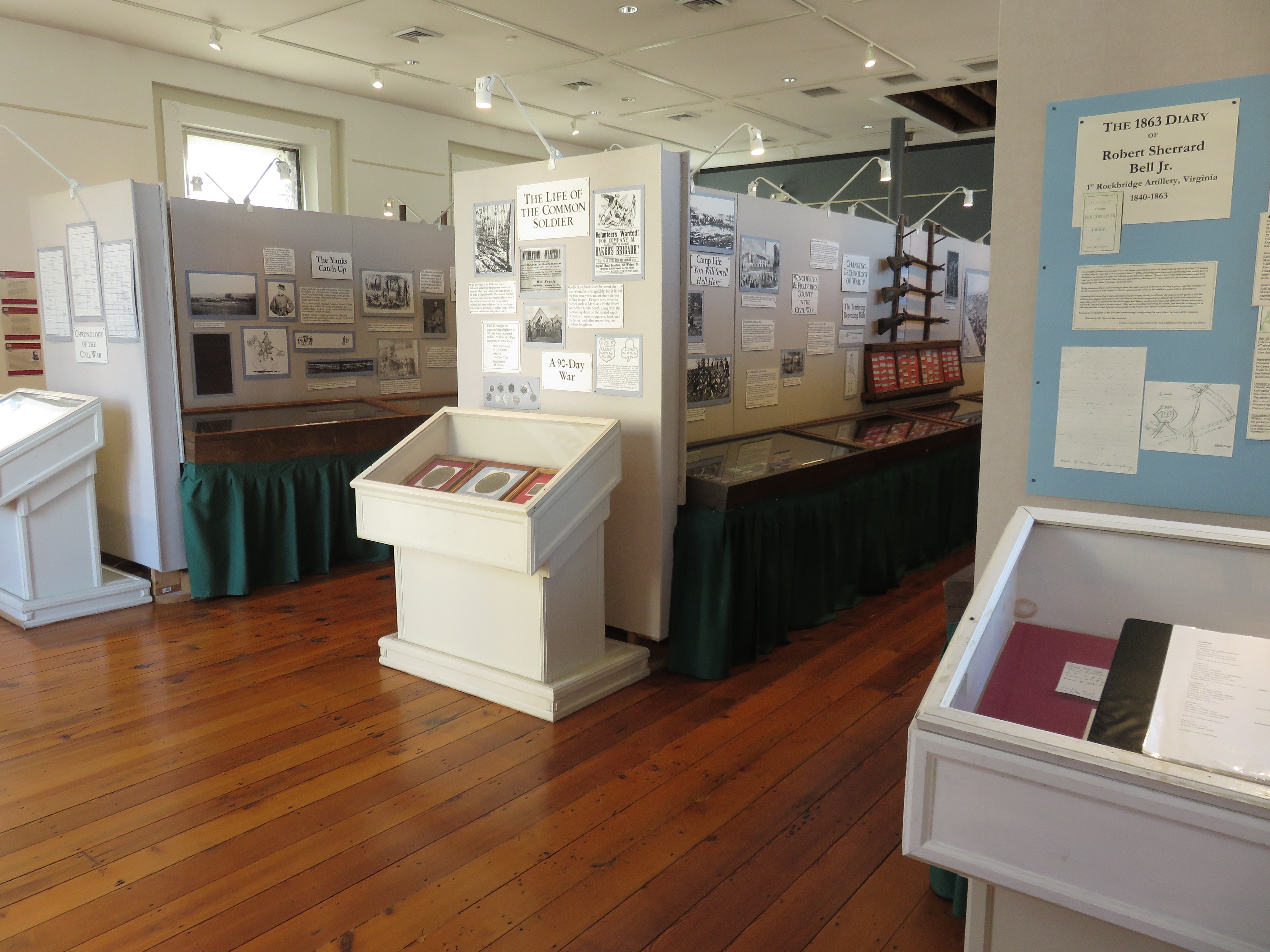 Shenandoah Valley Civil War Museum, housed in the Old Frederick County Courthouse, in Winchester, Virginia in 2019